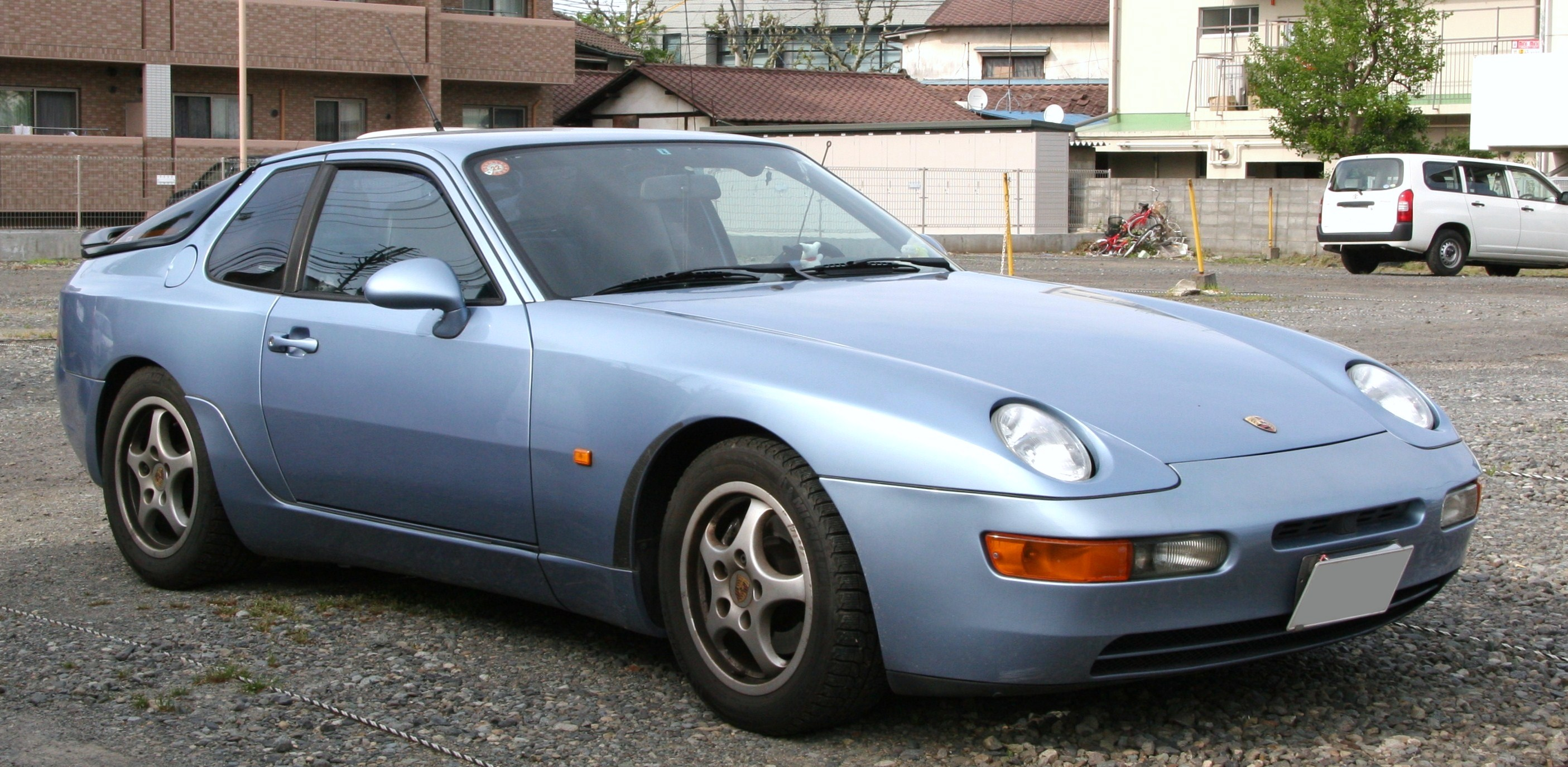 Porsche 968